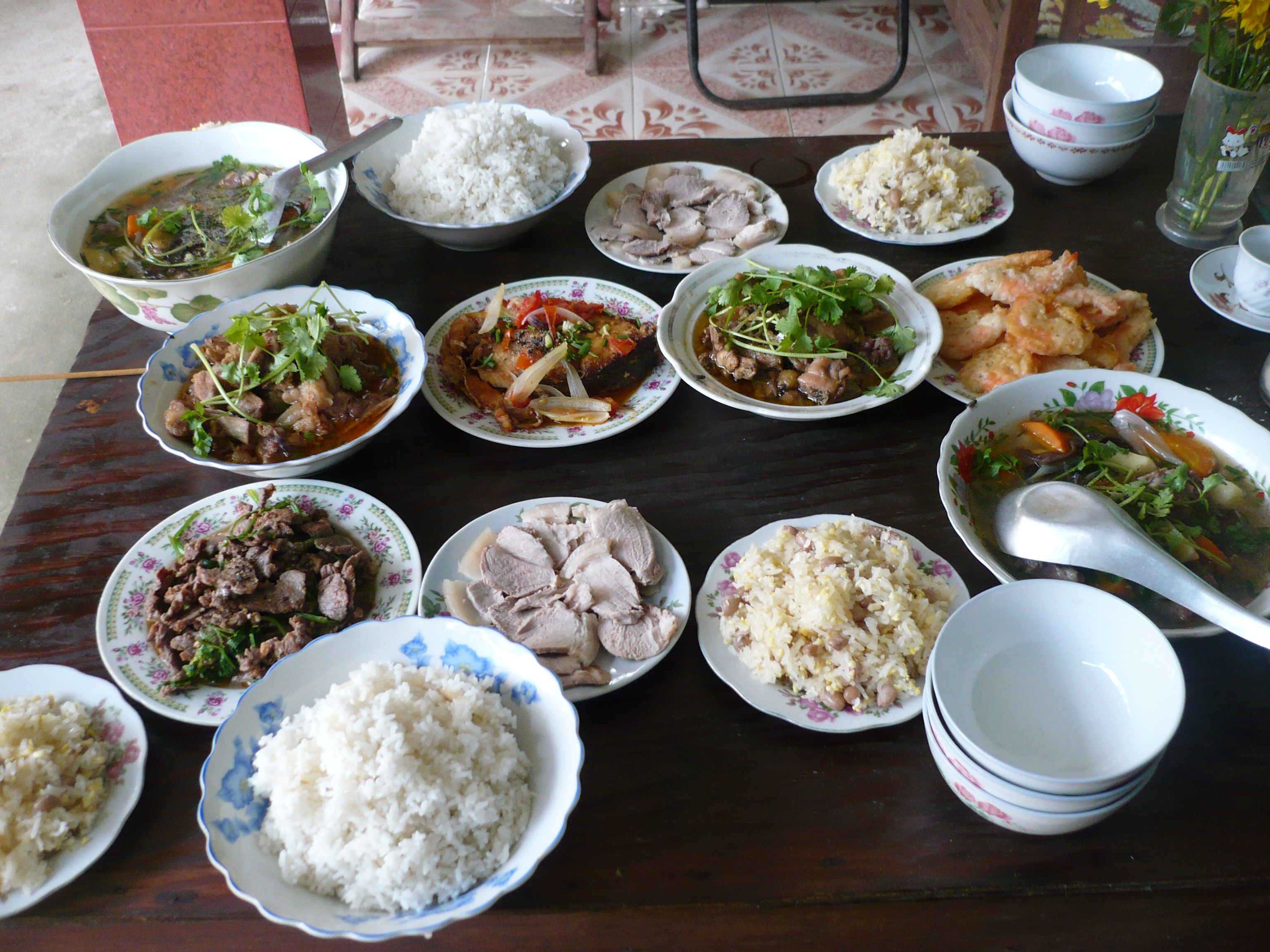 Vietnamese Food